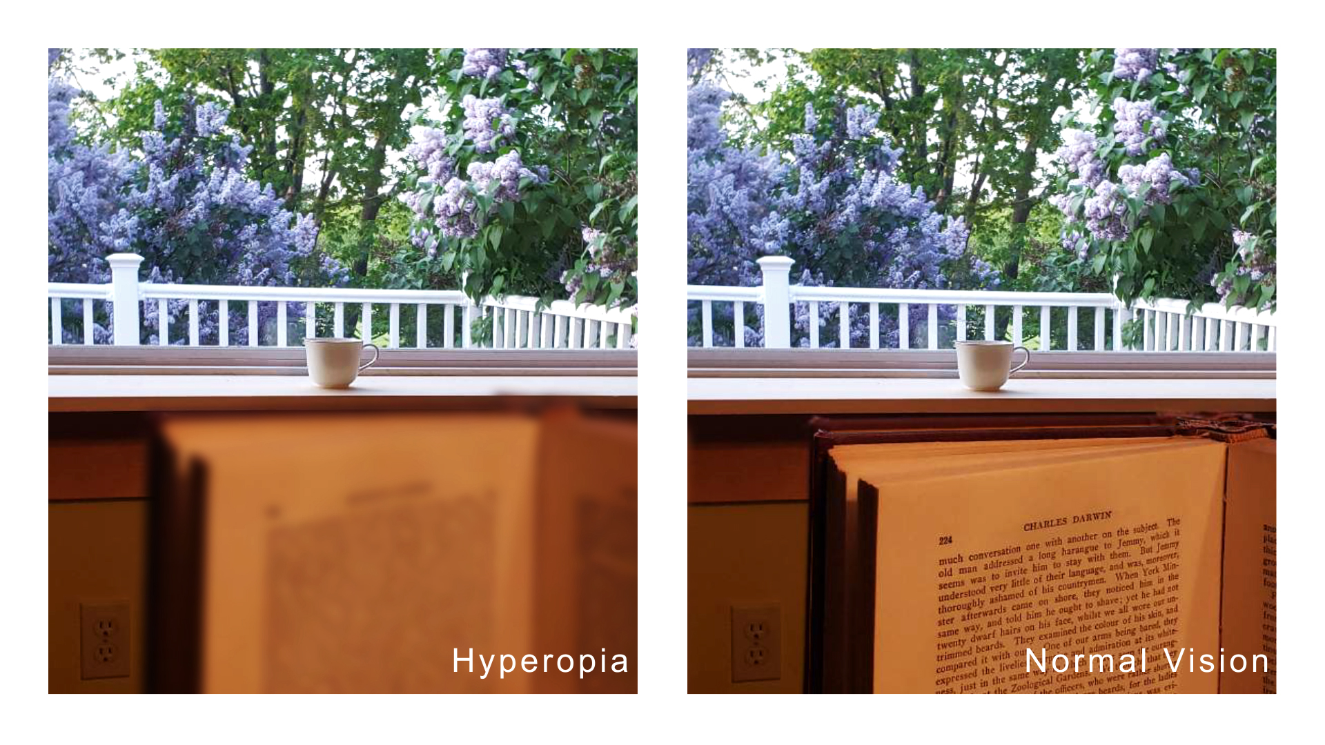 Being far-sighted can cause blurriness in objects that are close to the eye.